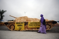 The IPB and partners walked through the streets of Rio de Janeiro, Brazil in 2012 at the United Nations Conference on Sustainable Development with the "Bread Tank" to protest military expenditure and highlight its consequences to global hunger.